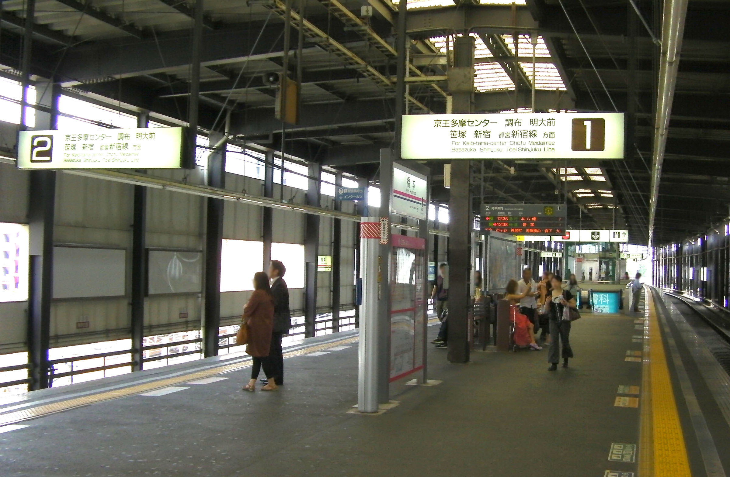 Keio Platforms of Hashimoto Station (Kanagawa)